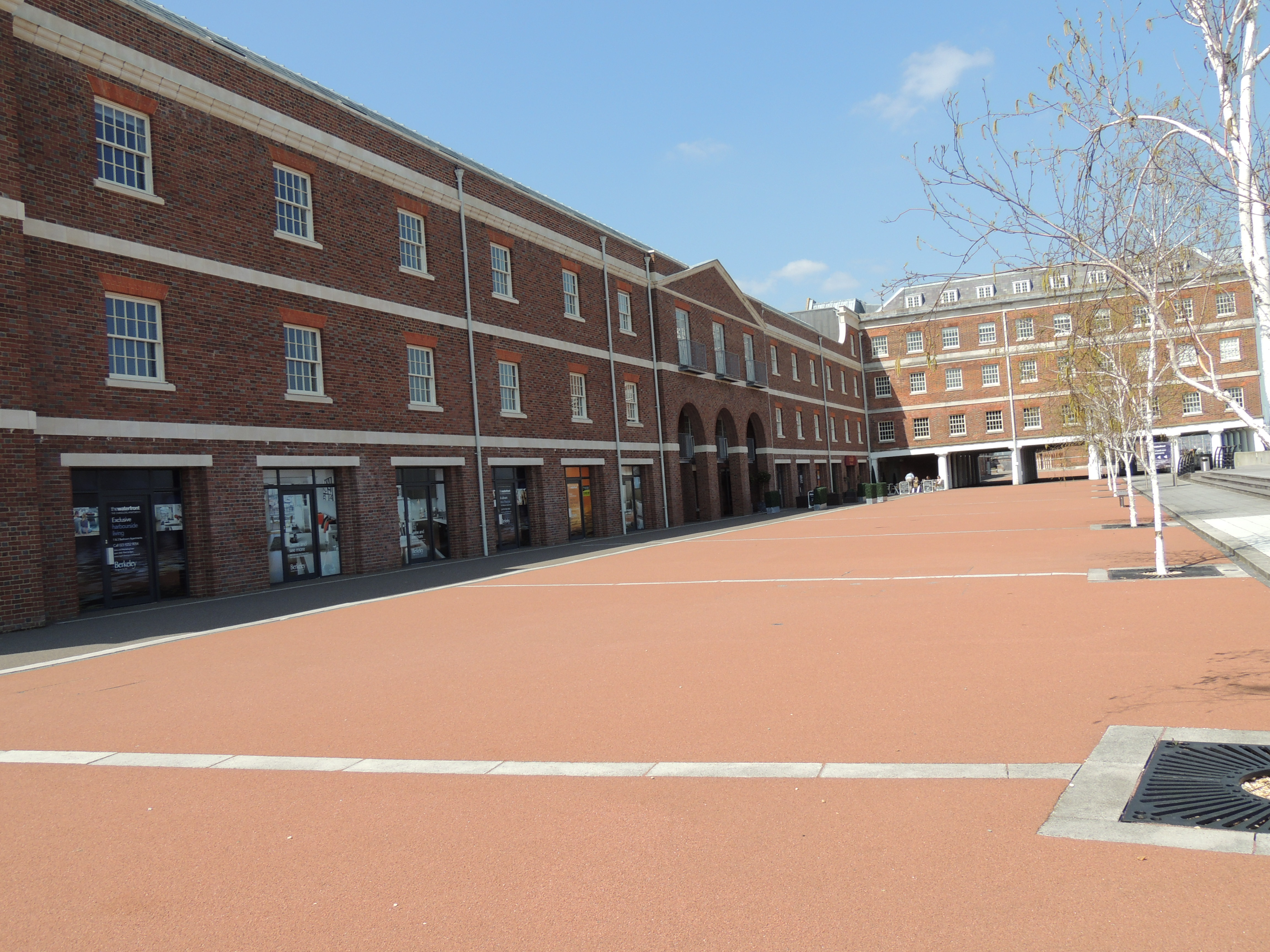 The storehouse wing of the Mills/Bakery complex (1828-32) was destroyed by bombing in World War II. It was rebuilt as part of the yard's redevelopment in the early 21st century.